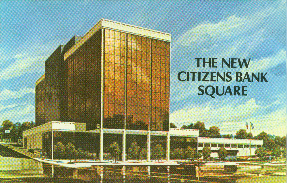 1971 postcard celebrating the opening of 'The New Citizens Bank Square' in Lexington, Kentucky which housed the Citizens Union National Bank and Trust Company.